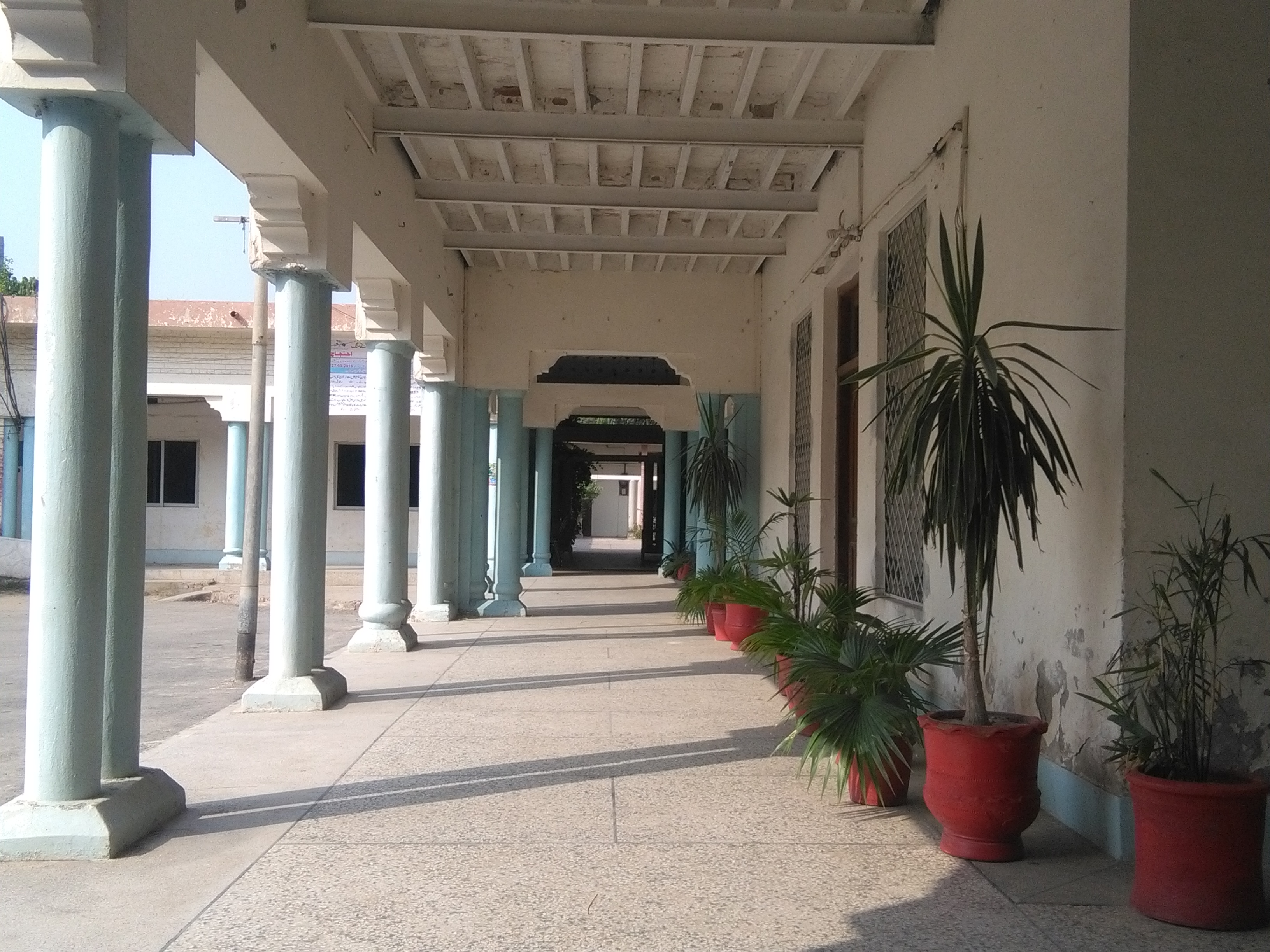 Jinnah Hall This is a photo of a monument in Pakistan identified as the PB-U-23